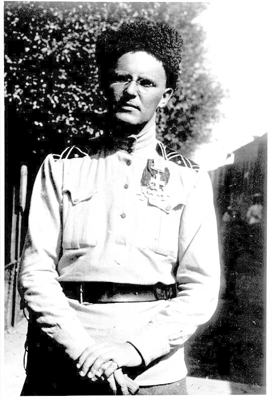 photo of Russian General Timanovskiy